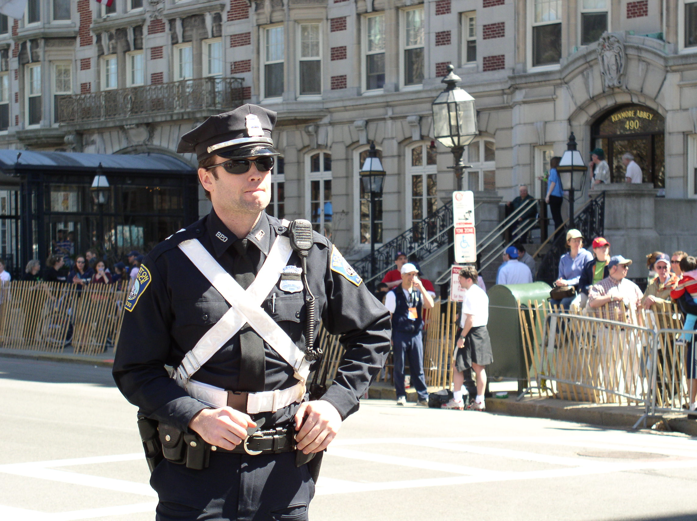 Photo of a police officer, Boston, USA